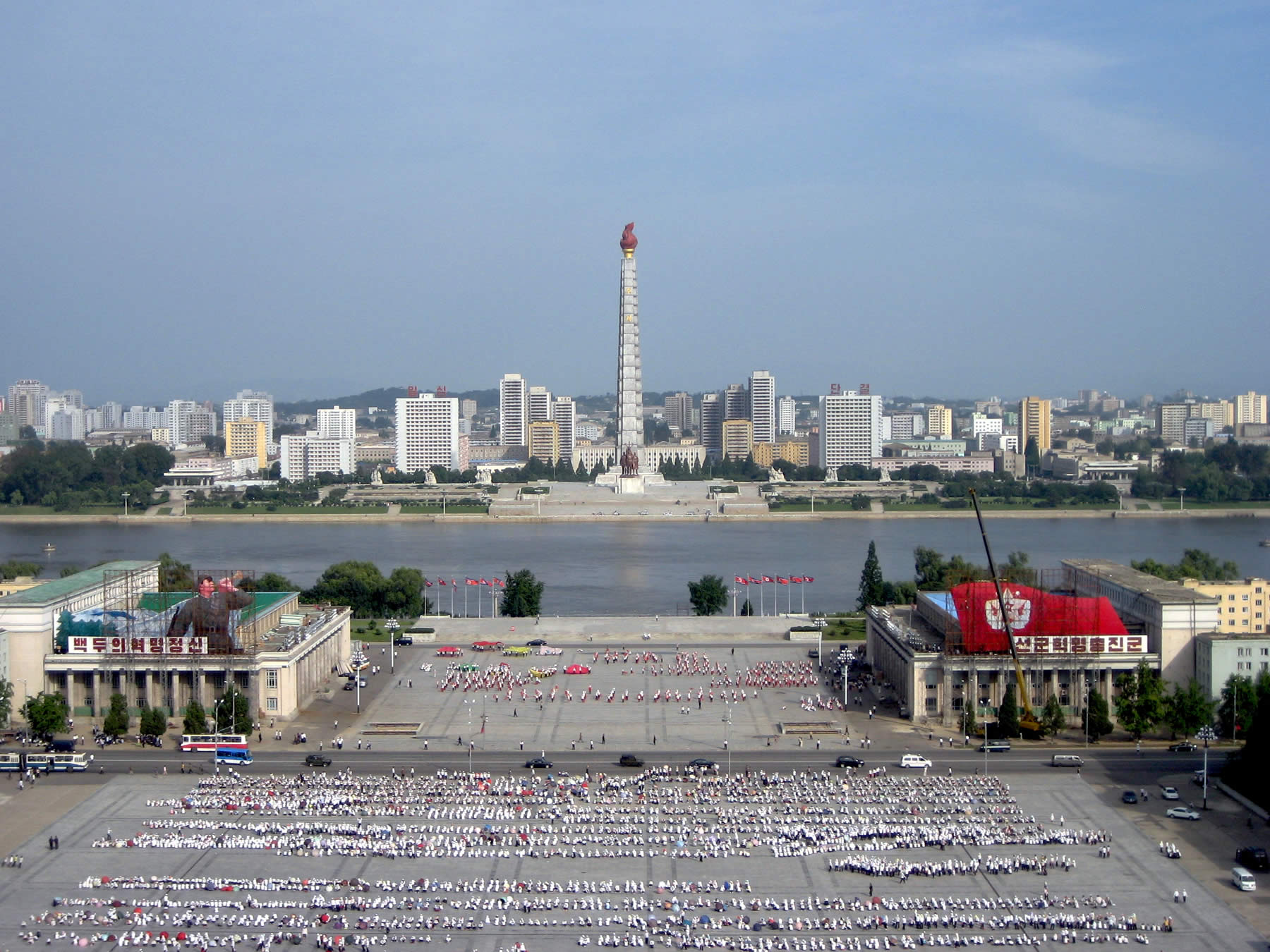 A view of Kim Il Sung Square, Pyongyang, with the Taedong River and Juche Tower in the background.